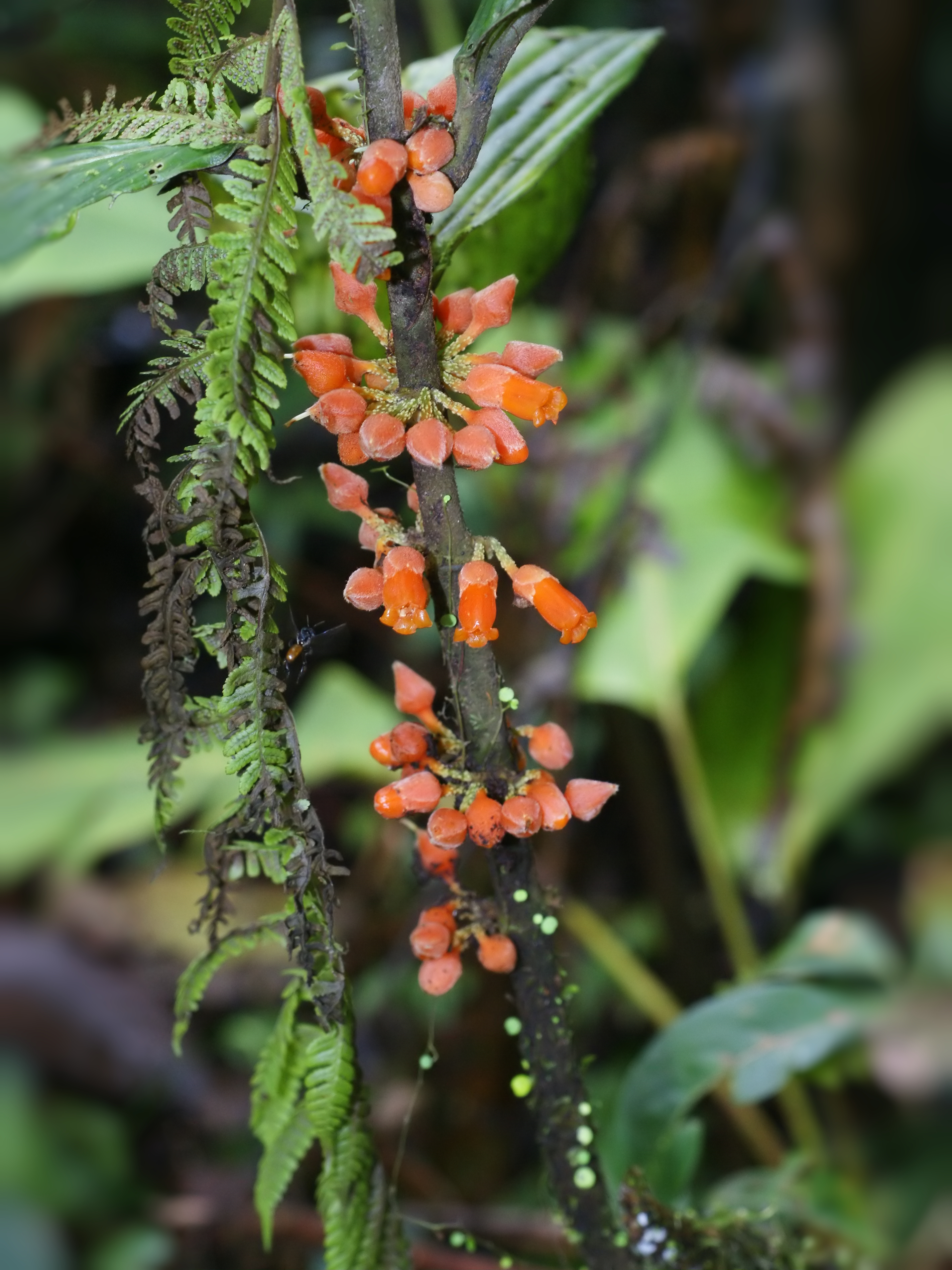 Plant at Rara Avis close to Las Horquetas, Costa Rica